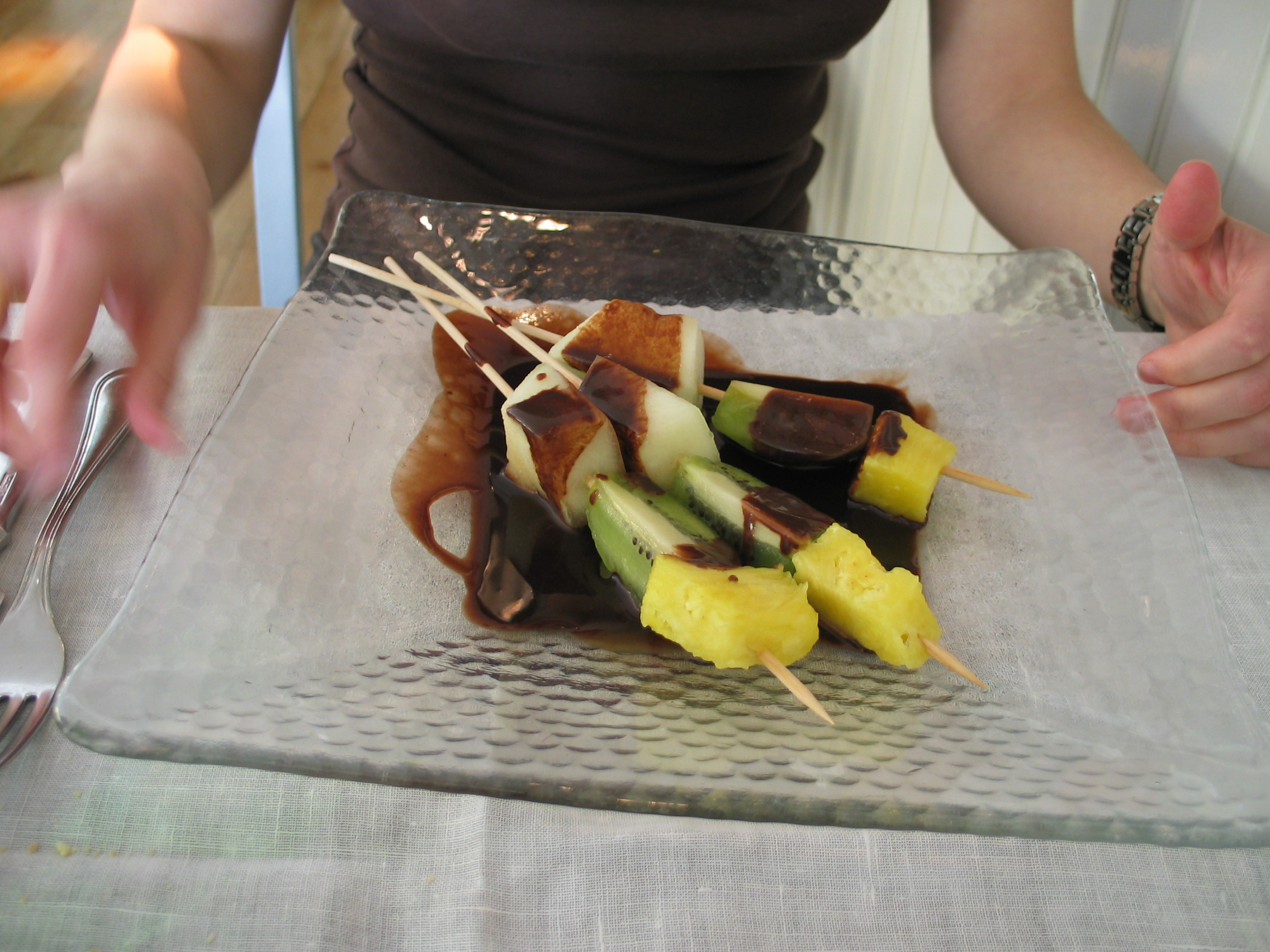 A fruits' brochettes with warm chocolate (Madrid's restaurant).